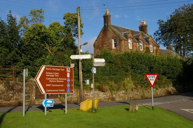 Signs at Bankend The junction offers a choice of heritage trails and a choice of roads to Glencaple: 2½ miles by the direct route or five via the coast. The building in the background with its corbie-stepped gables is Hutton Lodge, once the village schoolmaster's house and now a comfortable bed-and-breakfast.